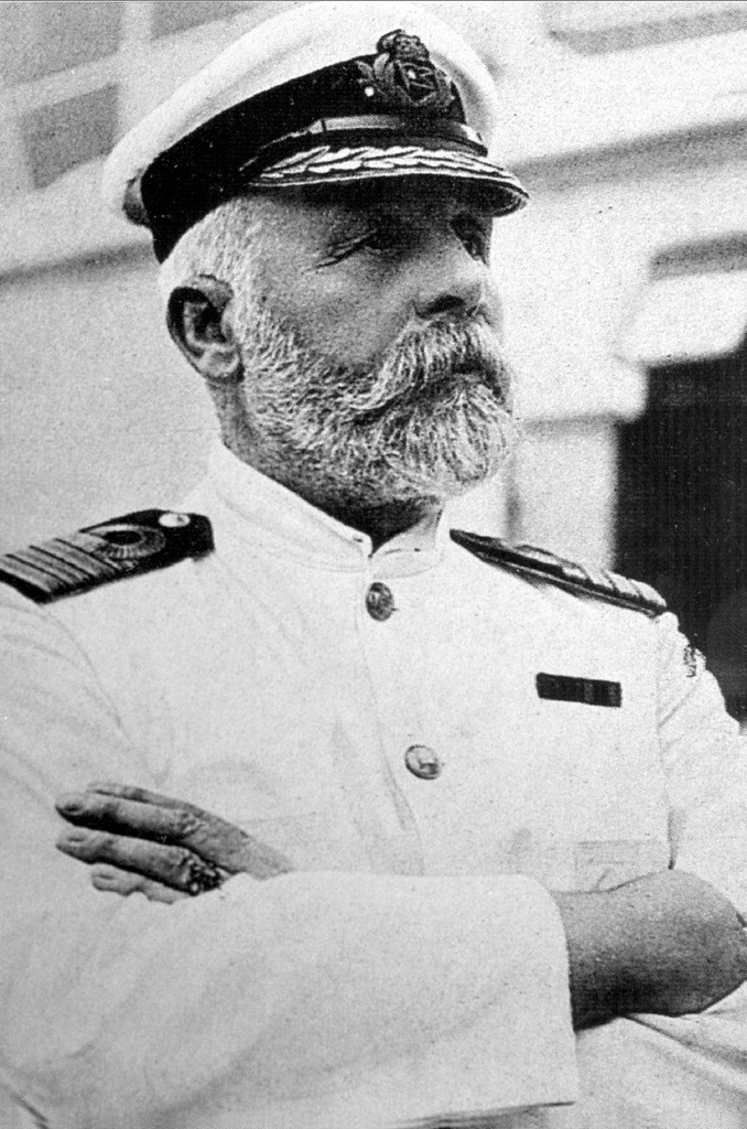 Captain Edward J. Smith, aboard the Olympic. 1911